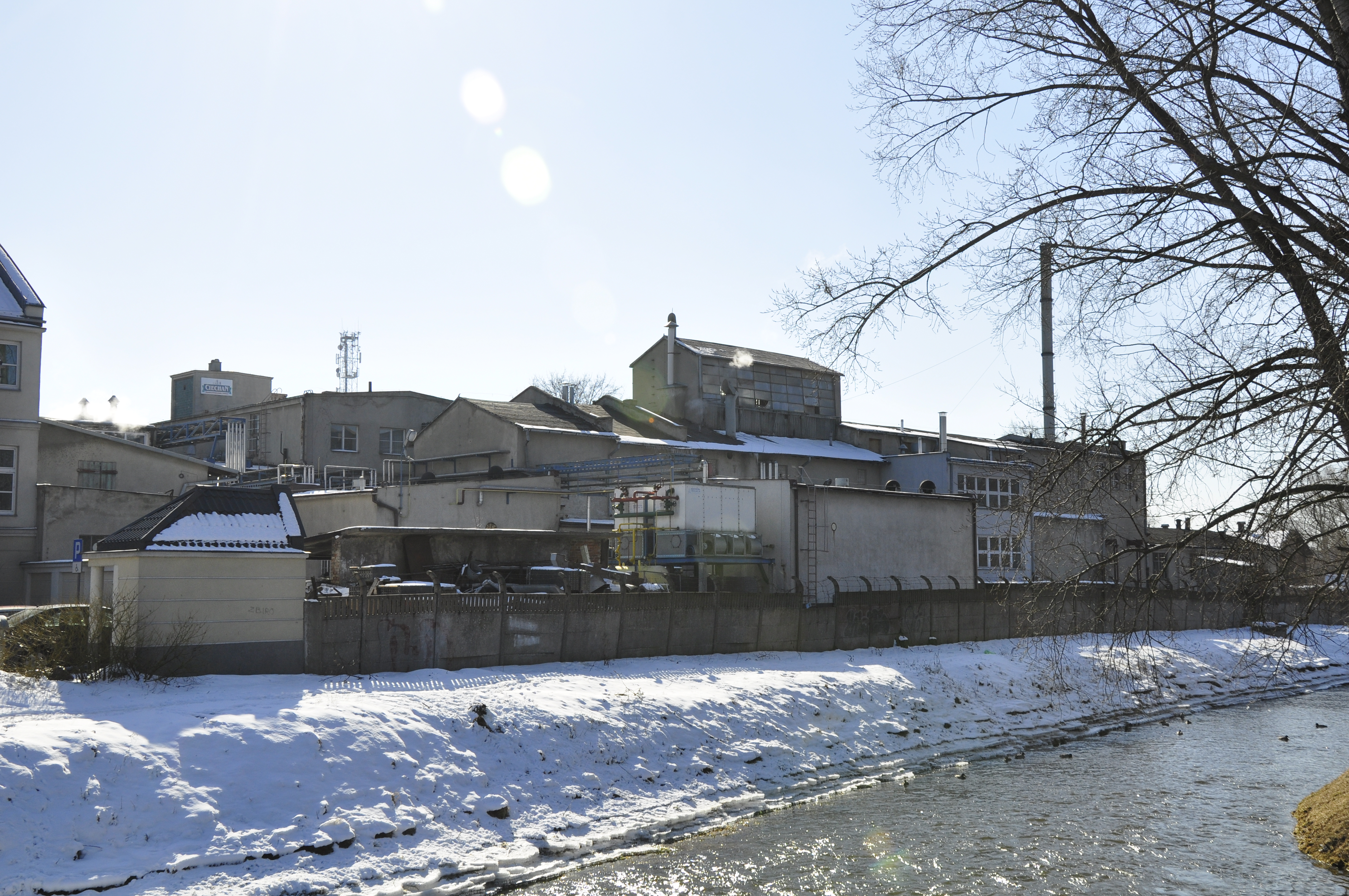 Ciechanow, Poland, brewery